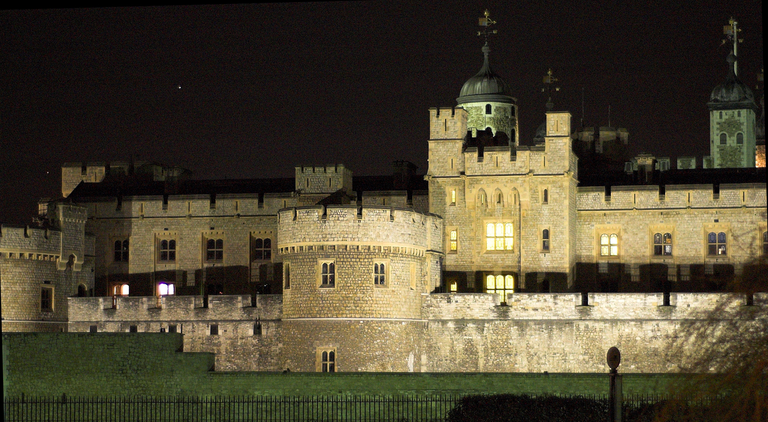 Tower of London at night